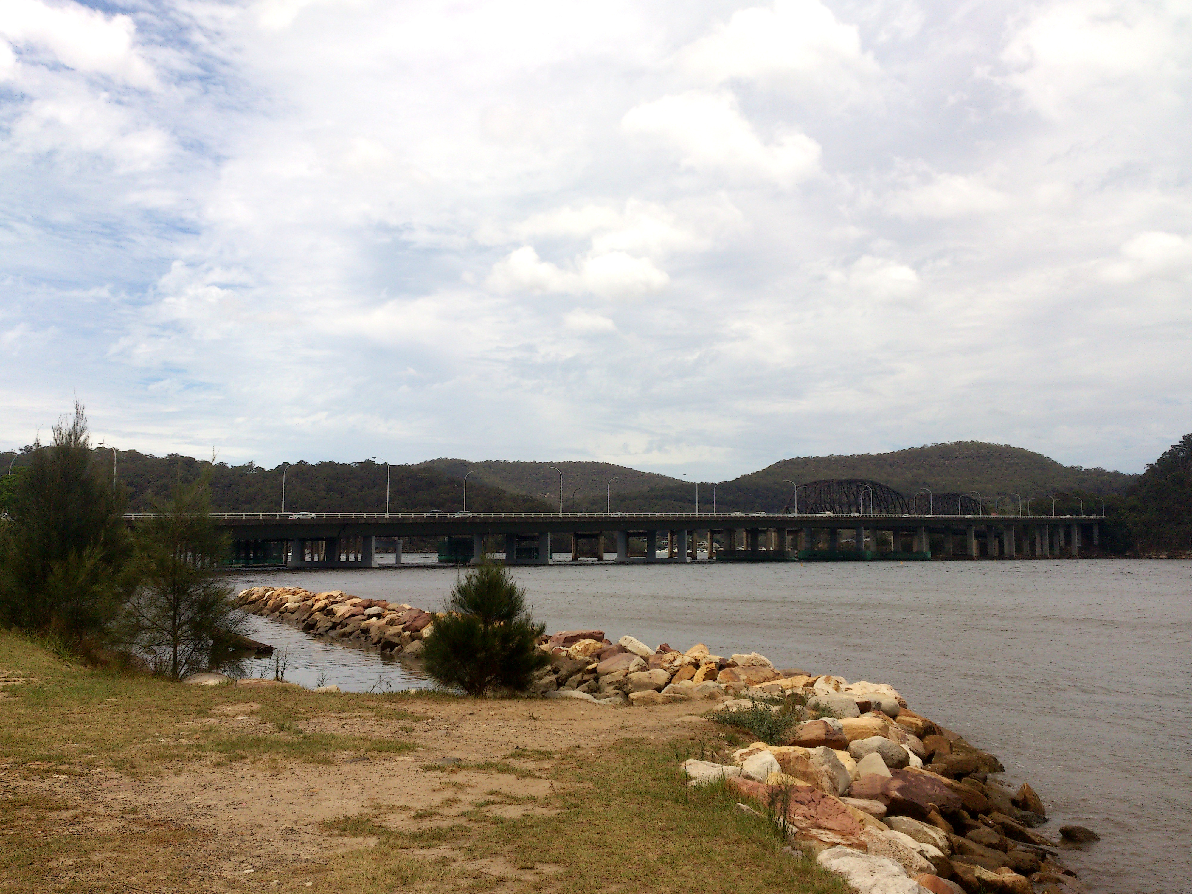 Mooney Mooney